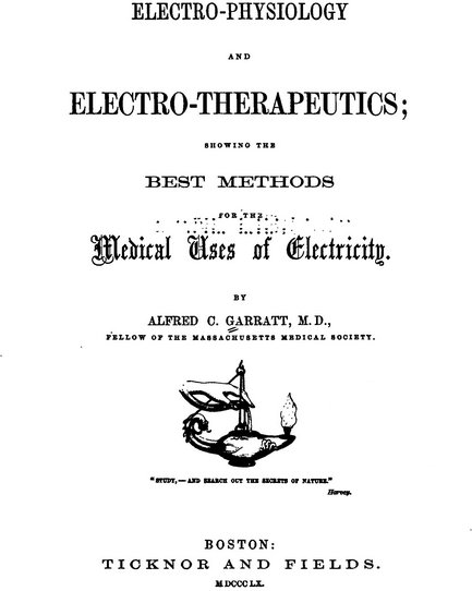 Electro-Physiology and Electro-Therapeutics by Dr. Alfred Charles Garratt - showing the best methods for the medical uses of electricity, 712 pages, published in 1860 by Ticknor and Fields, Boston, MA.